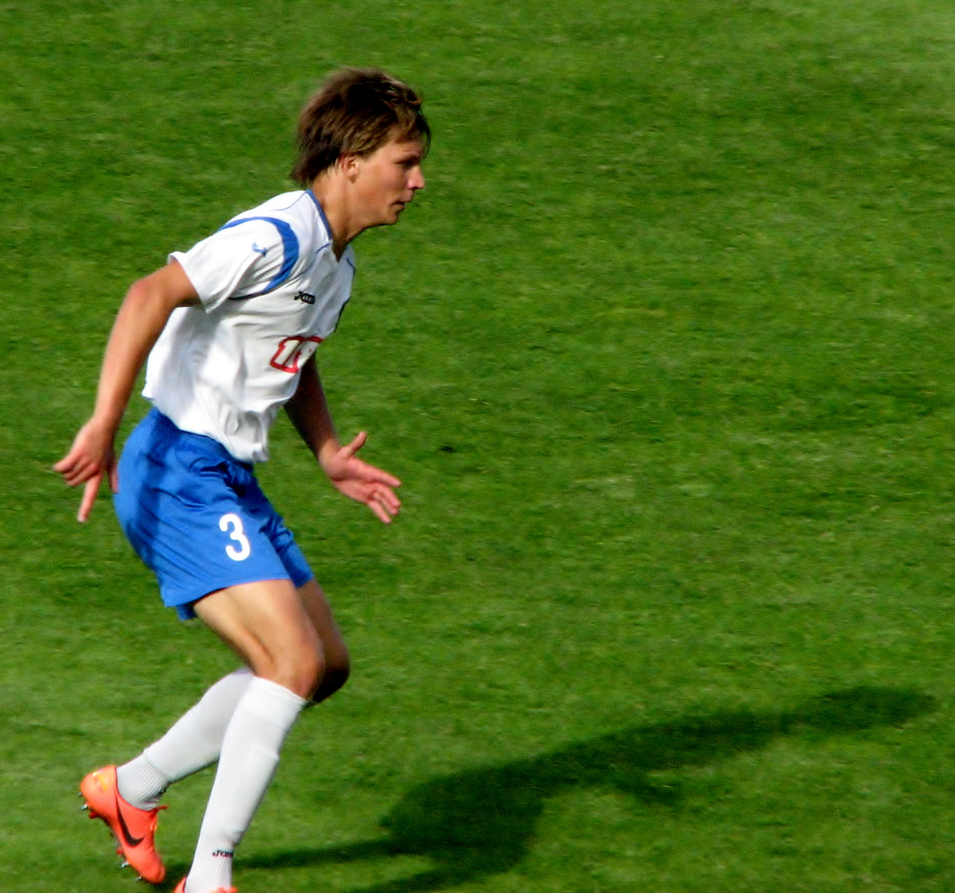 Aleksei Belov playing for FC Viljandi